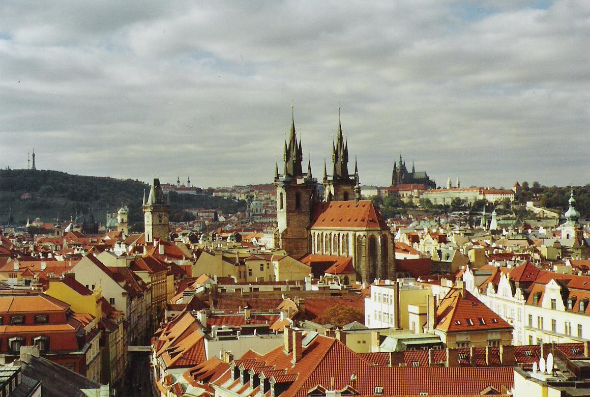 The "Golden city" Prague, seen from the Gunpowder tower